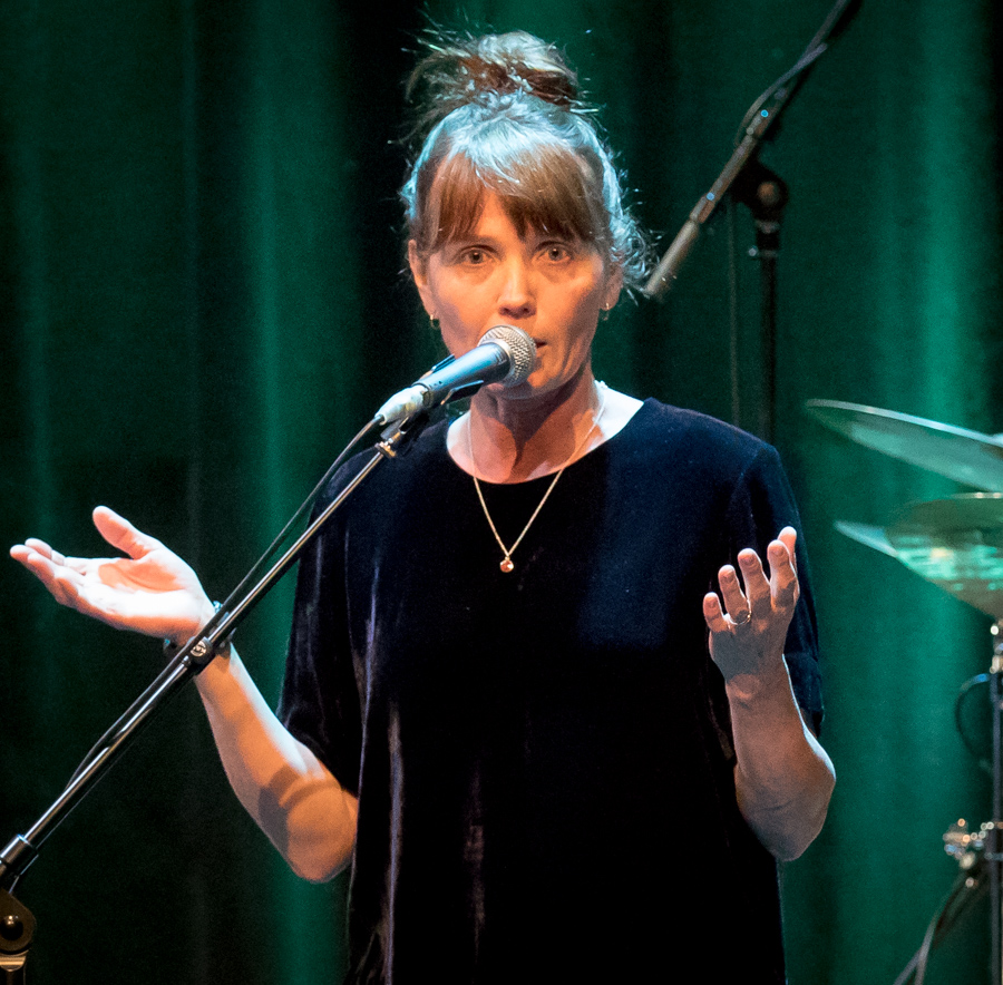 Kari Slåttsveen performs with Ingrid Bjørnov at the stage of Cosmopolite. The concert took place on 05. April 2017 in Oslo. The concert marked the release of her new album "Jugekors & Sørgerender".Lineup:Ingrid Bjørnov (piano)Javed Kurd (guitar)Jon-Willy Rydningen (keyboard)Rino Johannessen (bass guitar)Ole Petter Hansen Chylie (drums)Kari Slåttsveen (spoken words)Øystein Sunde (guitar)